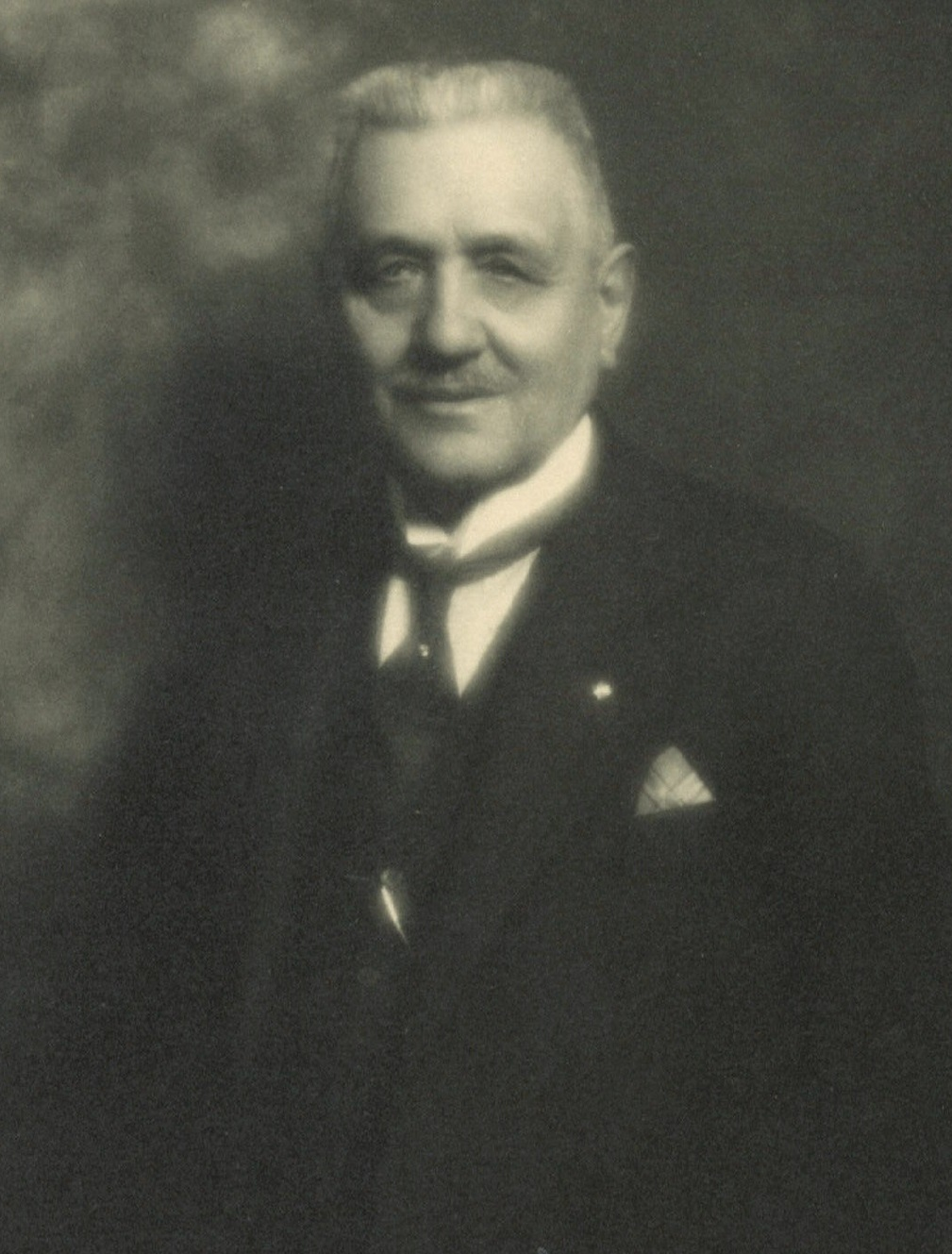 Antonio Bernocchi in 1918